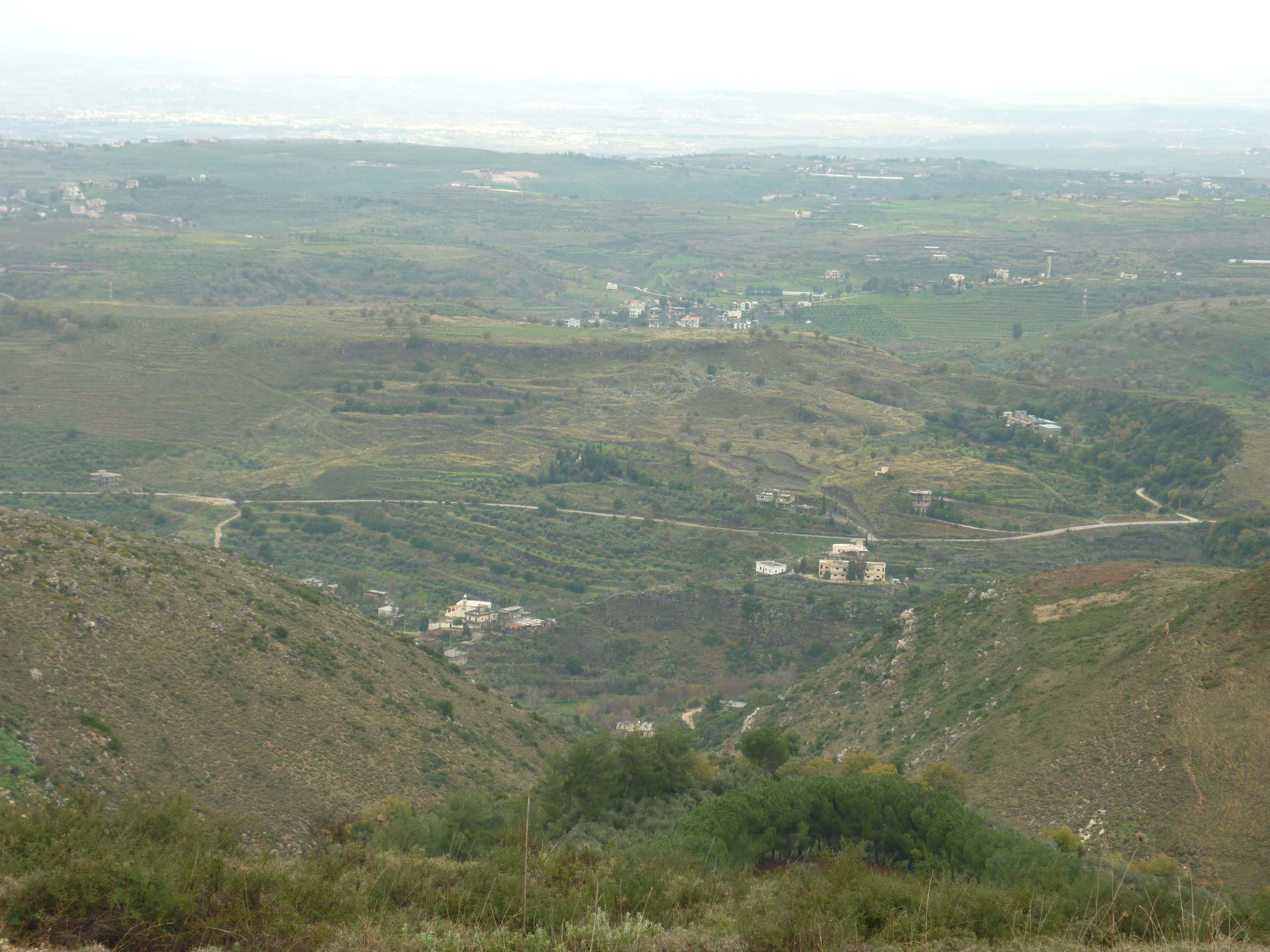 Elhed Akkar, North Lebanon